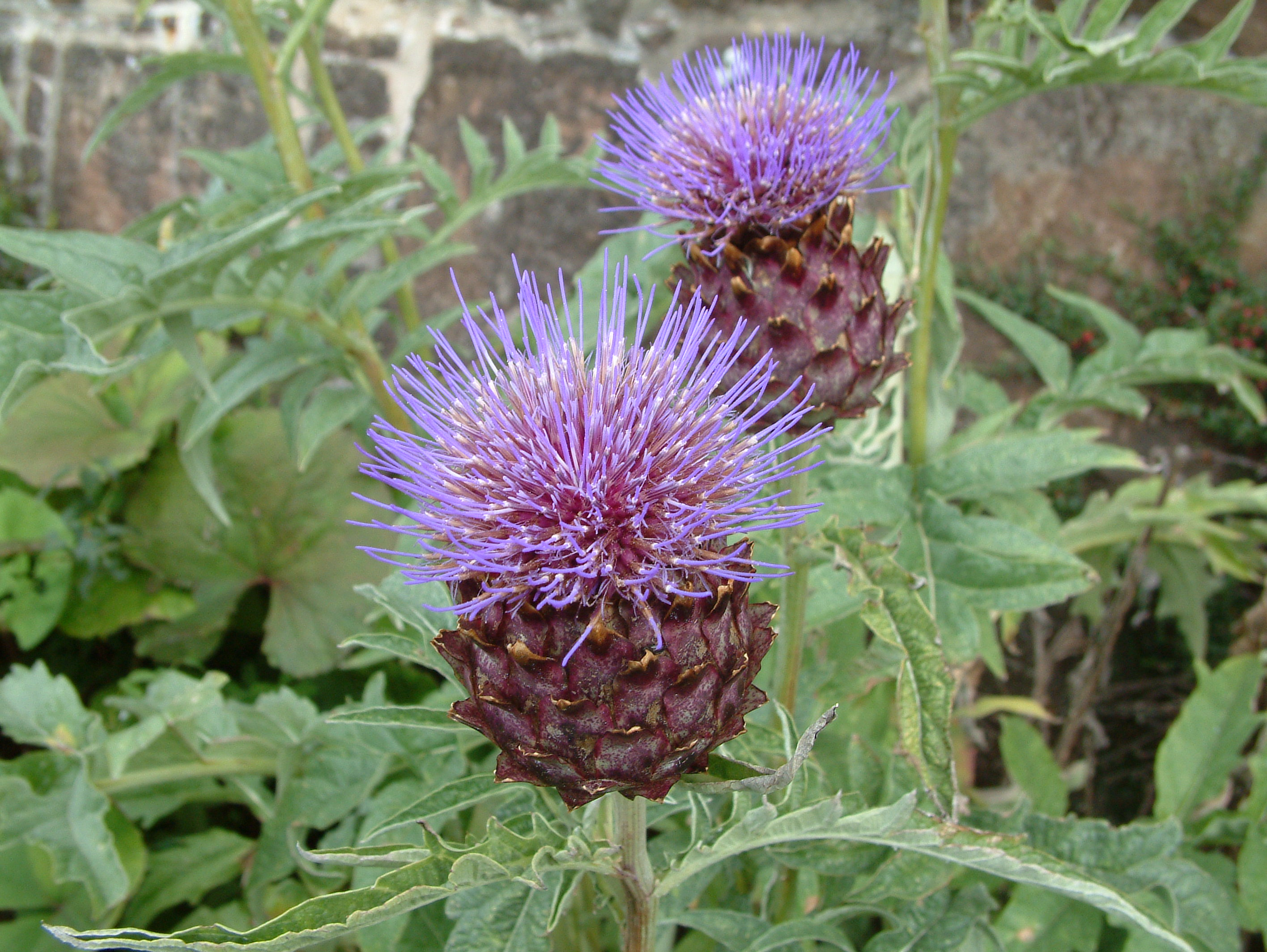 Carduus